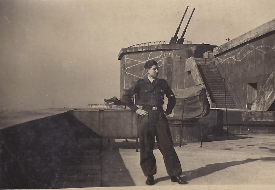 Flakhelfer (born 1927) on the Flaktower Berlin-Gesundbrunnen (Humboldthain), in the background 2 heavy flak guns (1943)